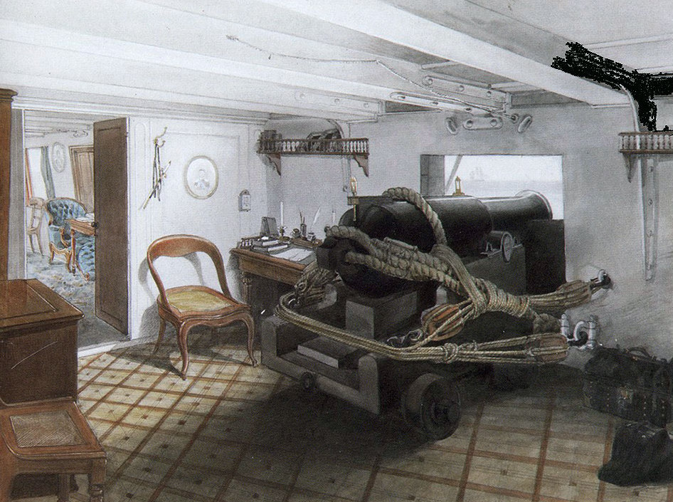 Gunfire casemate of the frigate "Oslyabya"